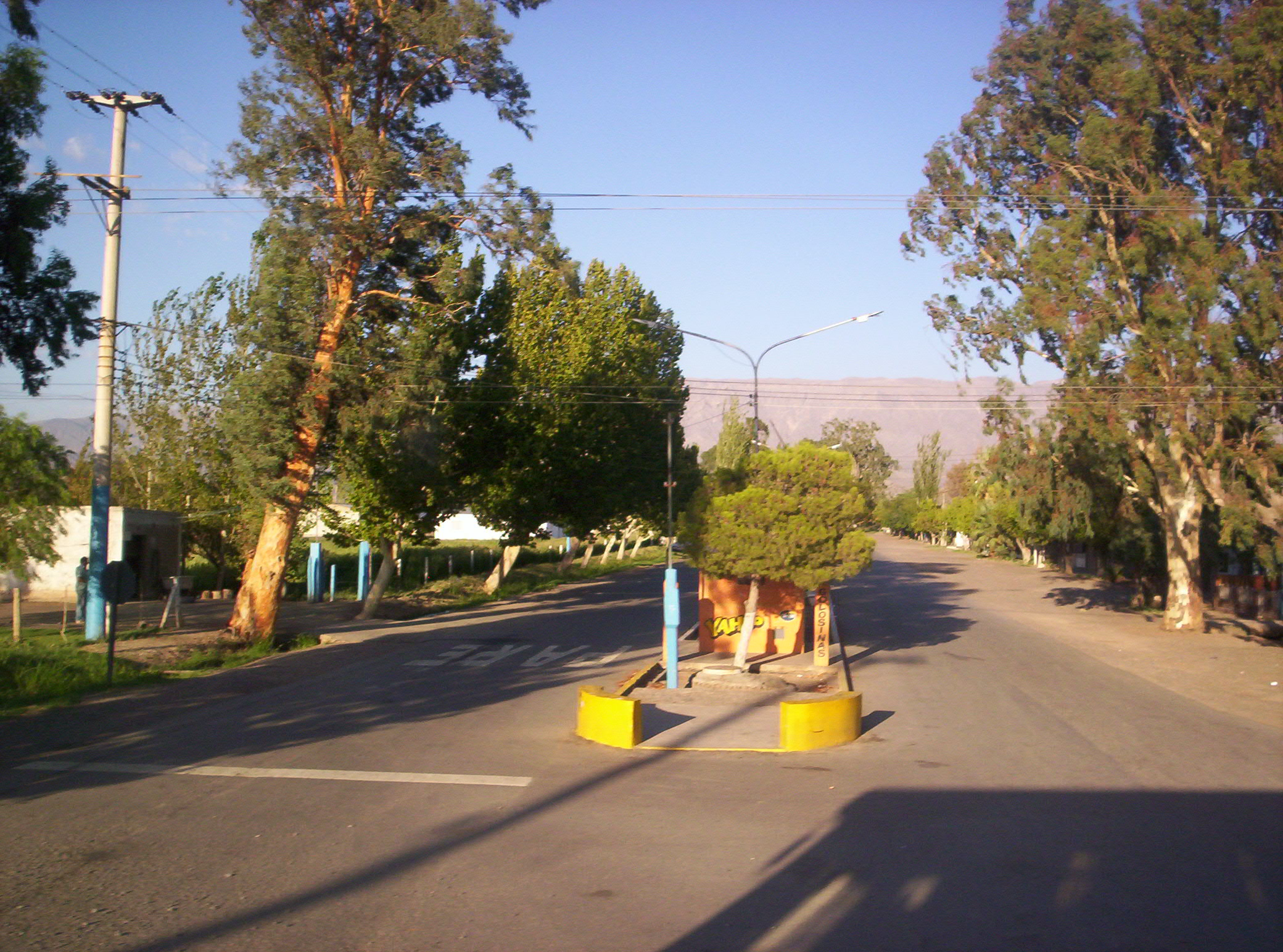 View the town of Carpentry in the Department Pocito province of San Juan, Argentina